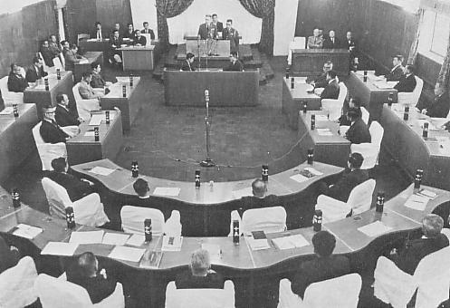 Assembly Hall of the Legislature of the GRI(Government of the Ryukyu Islands)